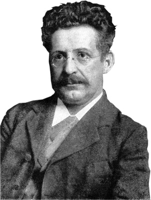 Swiss politician and scribe